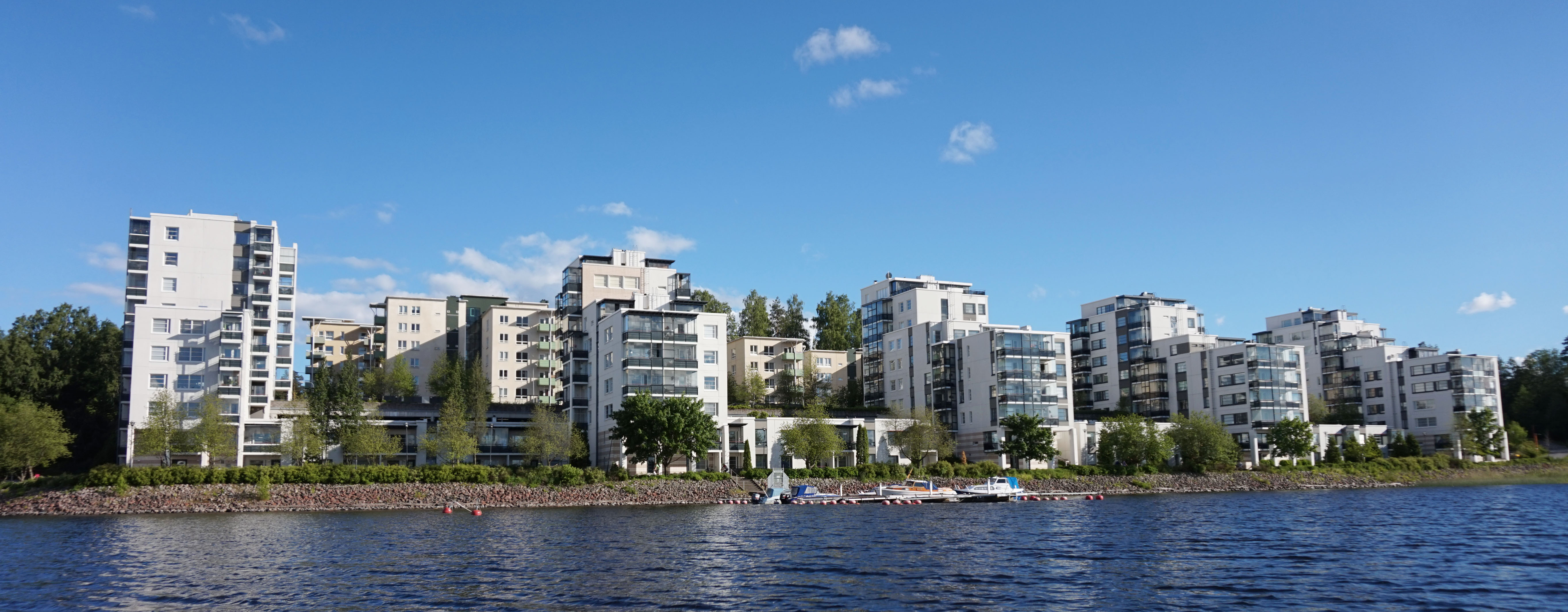 Ainolanranta in Jyväskylä, Finland.This photograph was taken with a Sony ILCE-5000